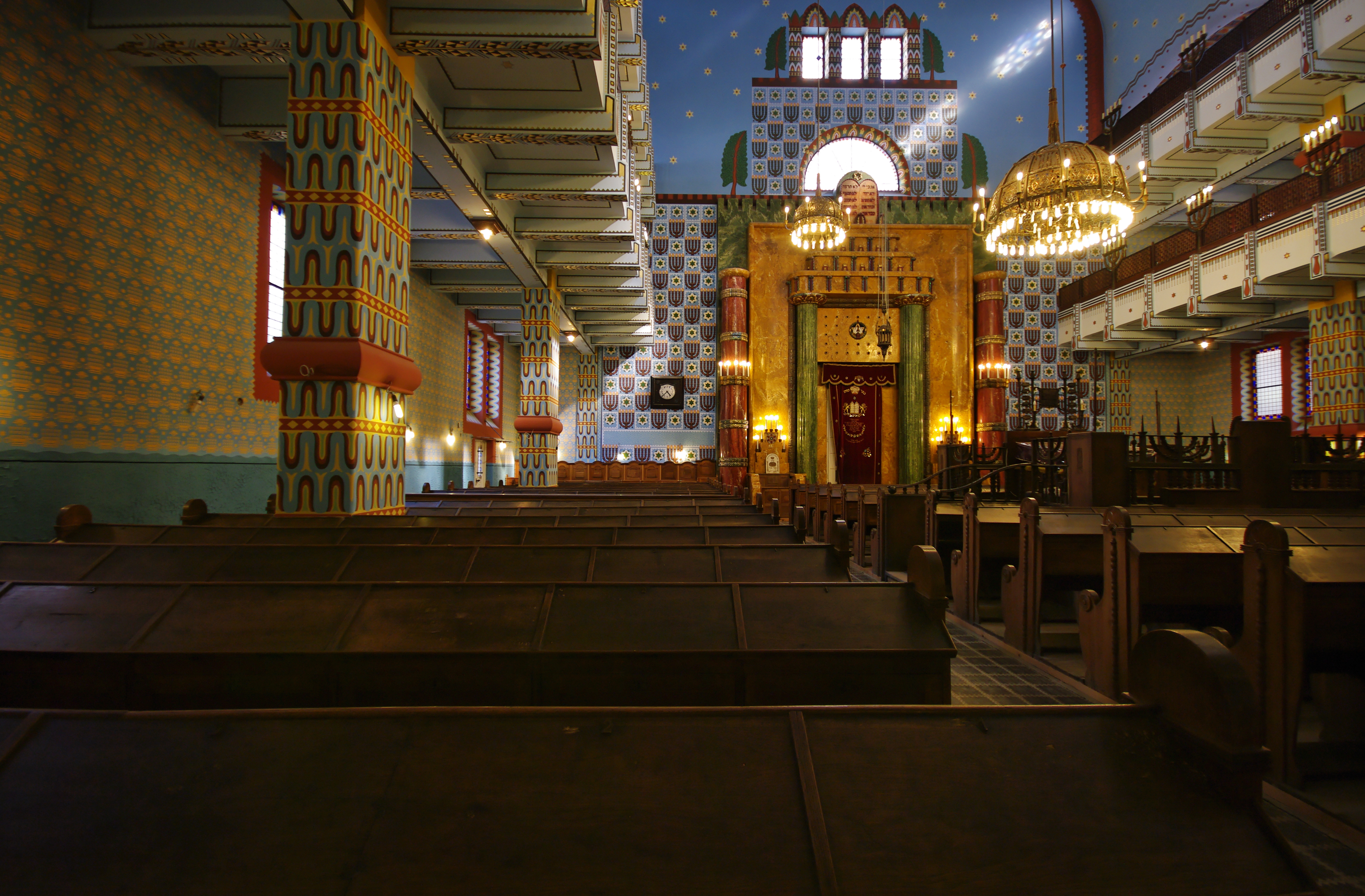 Kazinczy Street Orthodox Synagogue in Pest, Budapest - Hungary.